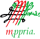 An XVIIIth century manu propria; the abbreviation 'mpropria' ist visualized by colouring.